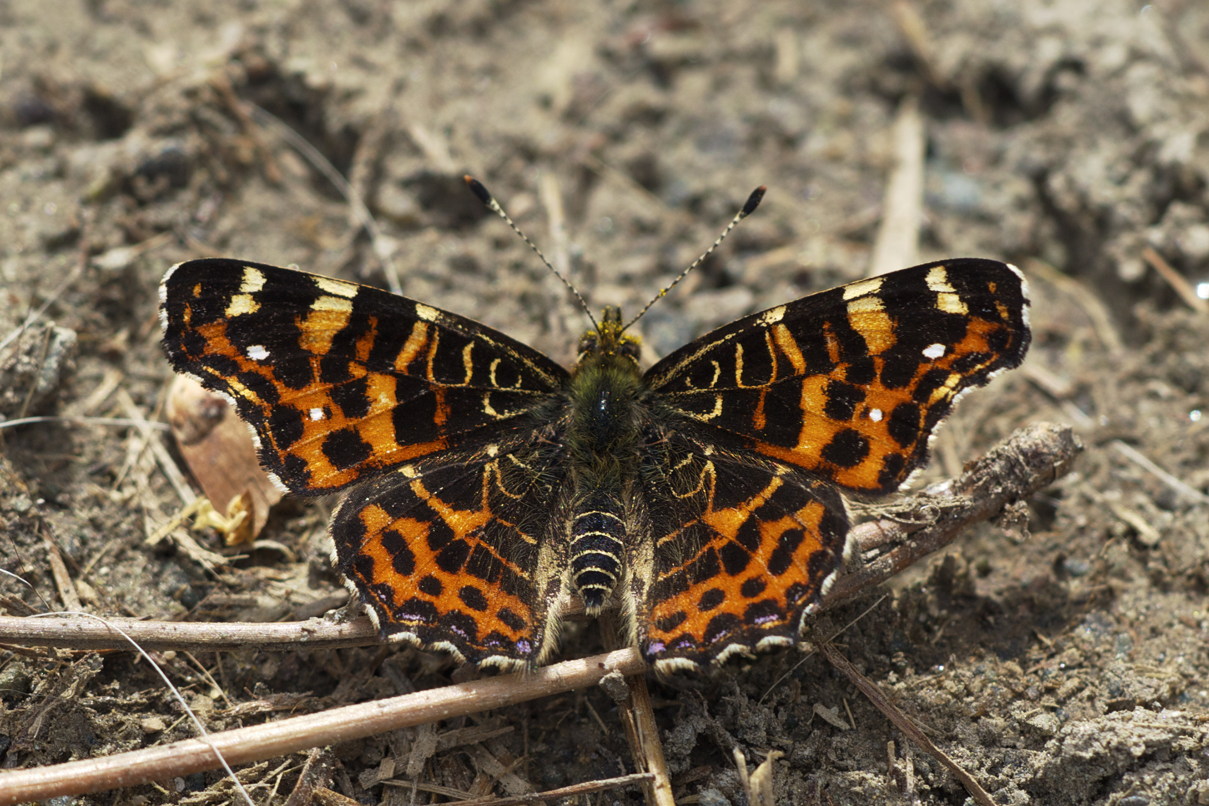 Map (Araschnia levana), Chemnitz, Germany